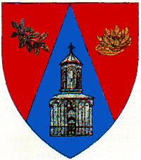 Coat of arms of Ilfov County, Romania.